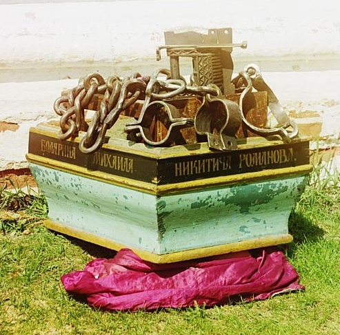 Chains of Mikhail Nikitich Romanov, Nyrob Vilage, Ural.